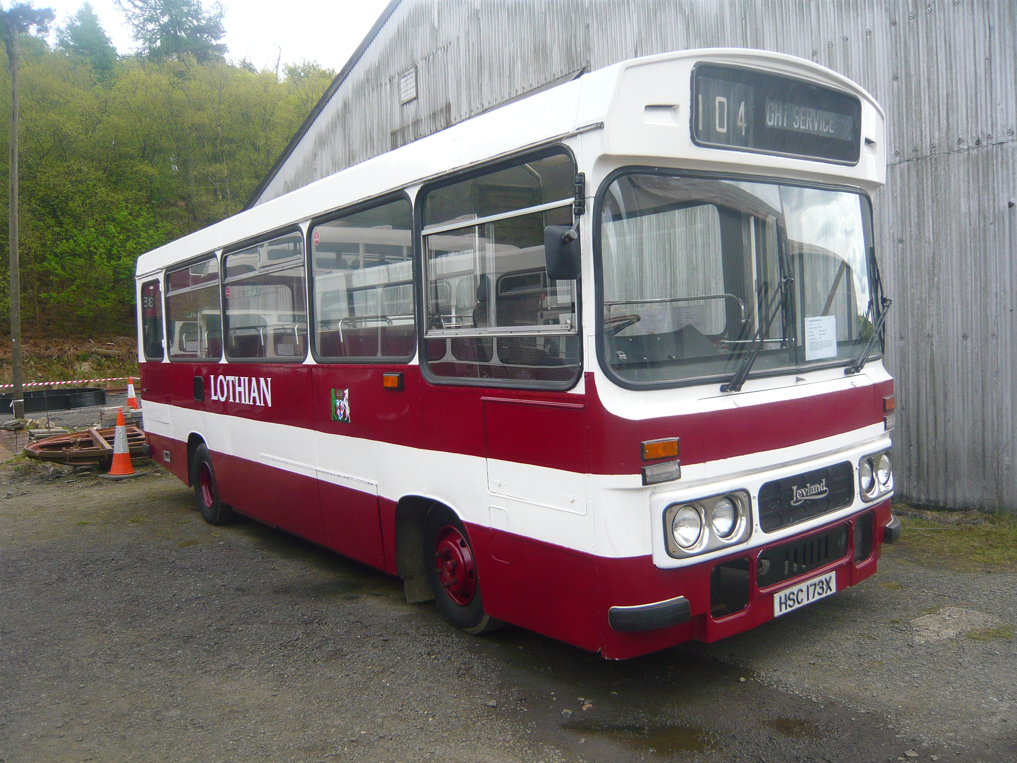 Preserved Lothian Region Transport bus 173 (reg. HSC 173X), a 1981 Leyland Cub midibus with Duple Dominant bus bodywork, wearing Madder and White livery. Pictured in the Scottish Vintage Bus Museum in Fife.